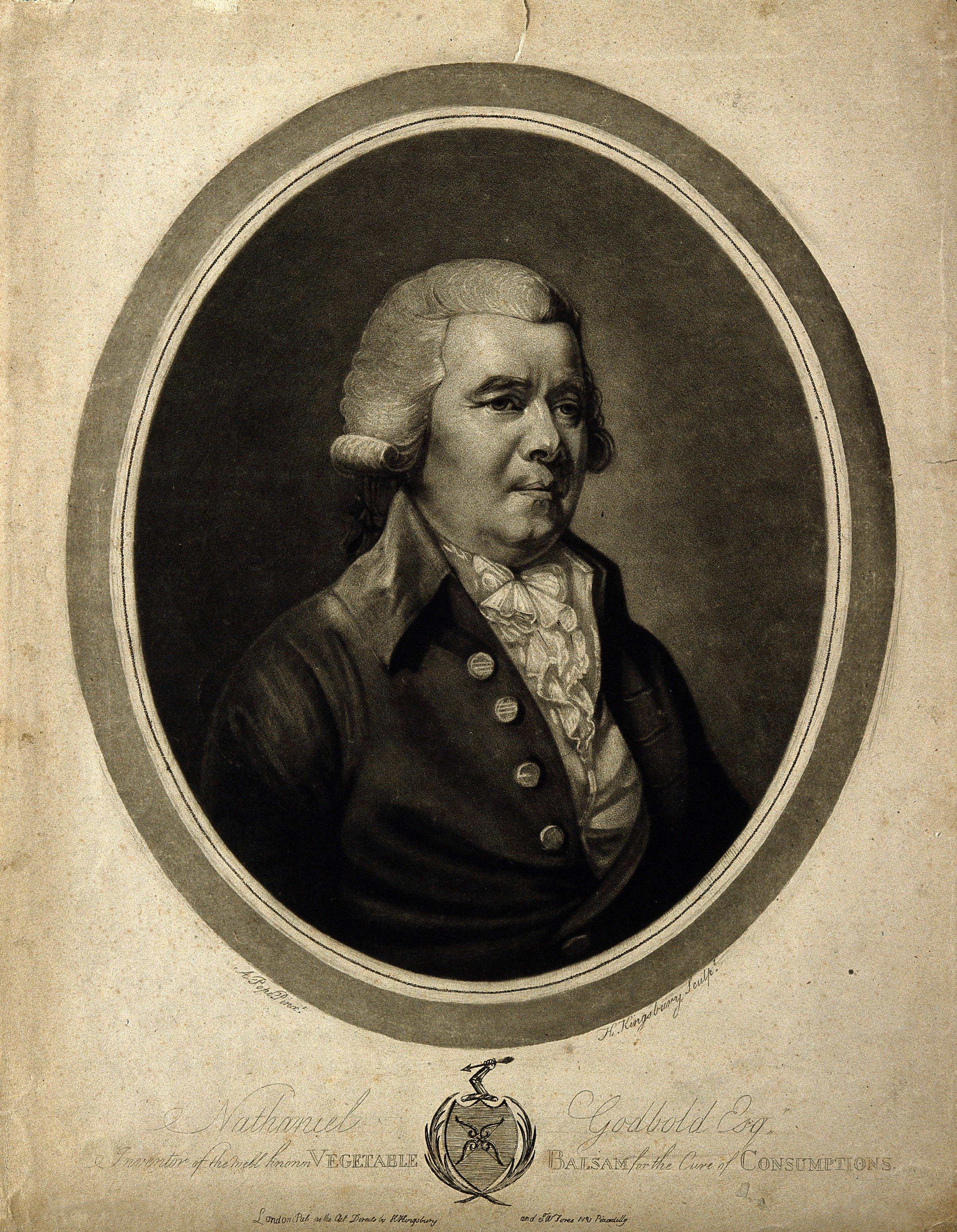 Nathaniel Godbold. Mezzotint by H. Kingsbury after A. Pope. Iconographic Collections Keywords: portrait prints; H. Kingsbury; mezzotints; Alexander Pope; Nathaniel Godbold